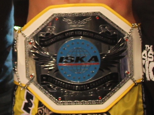 ISKA - Interconti-Titel 2013 Gökhan Arslan vs Marko Lukartz